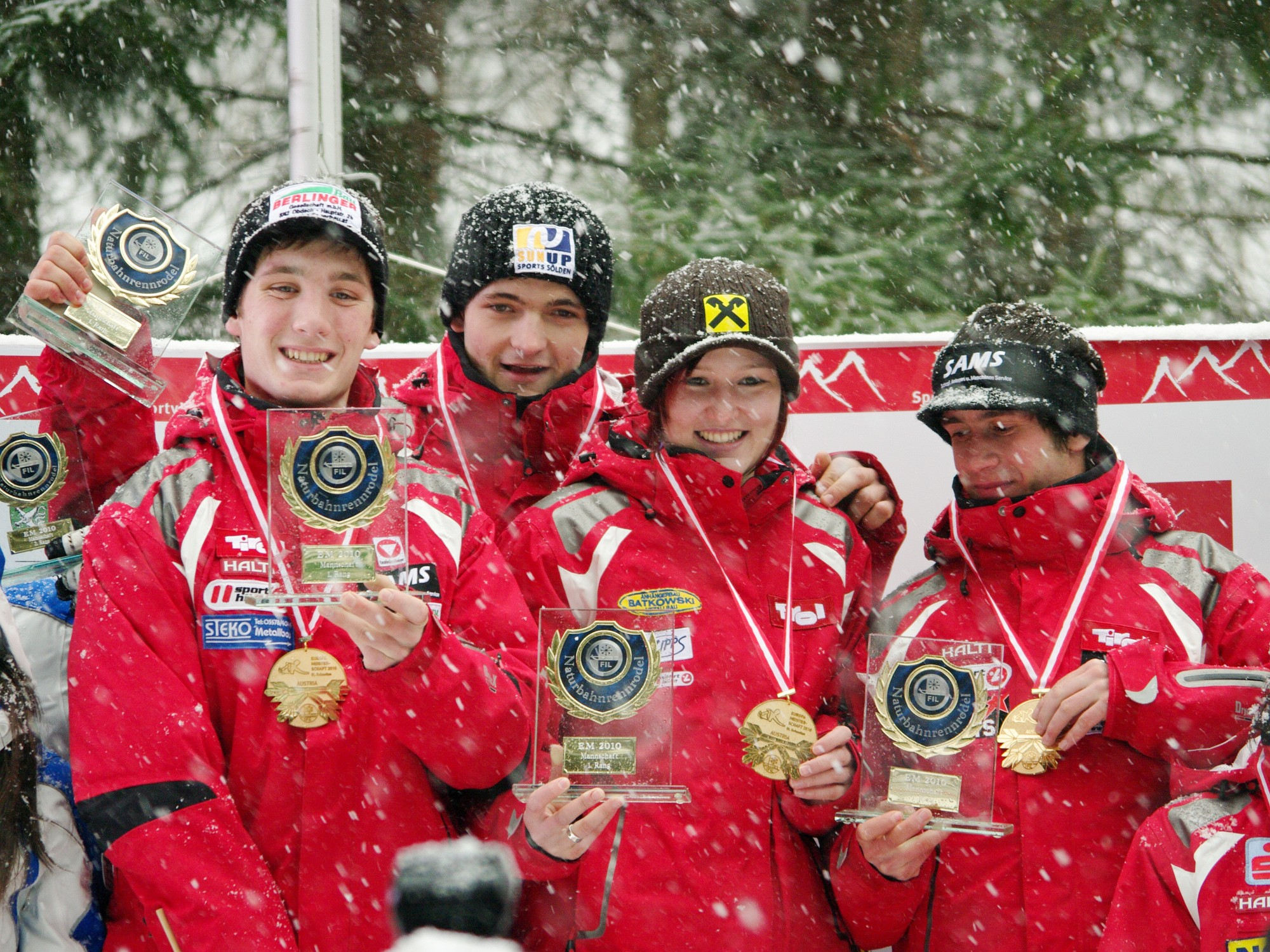 FIL European Luge Natural Track Championships 2010, Prize giving ceremony mixed team: 1st place: Team Austria I (Melanie Batkowski, Thomas Kammerlander, Christian Schopf, Andreas Schopf).